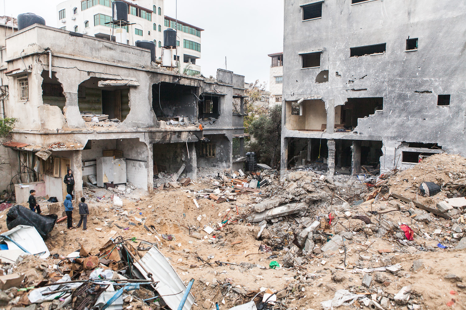 Destroyed house of the Al Dalou family in Gaza City